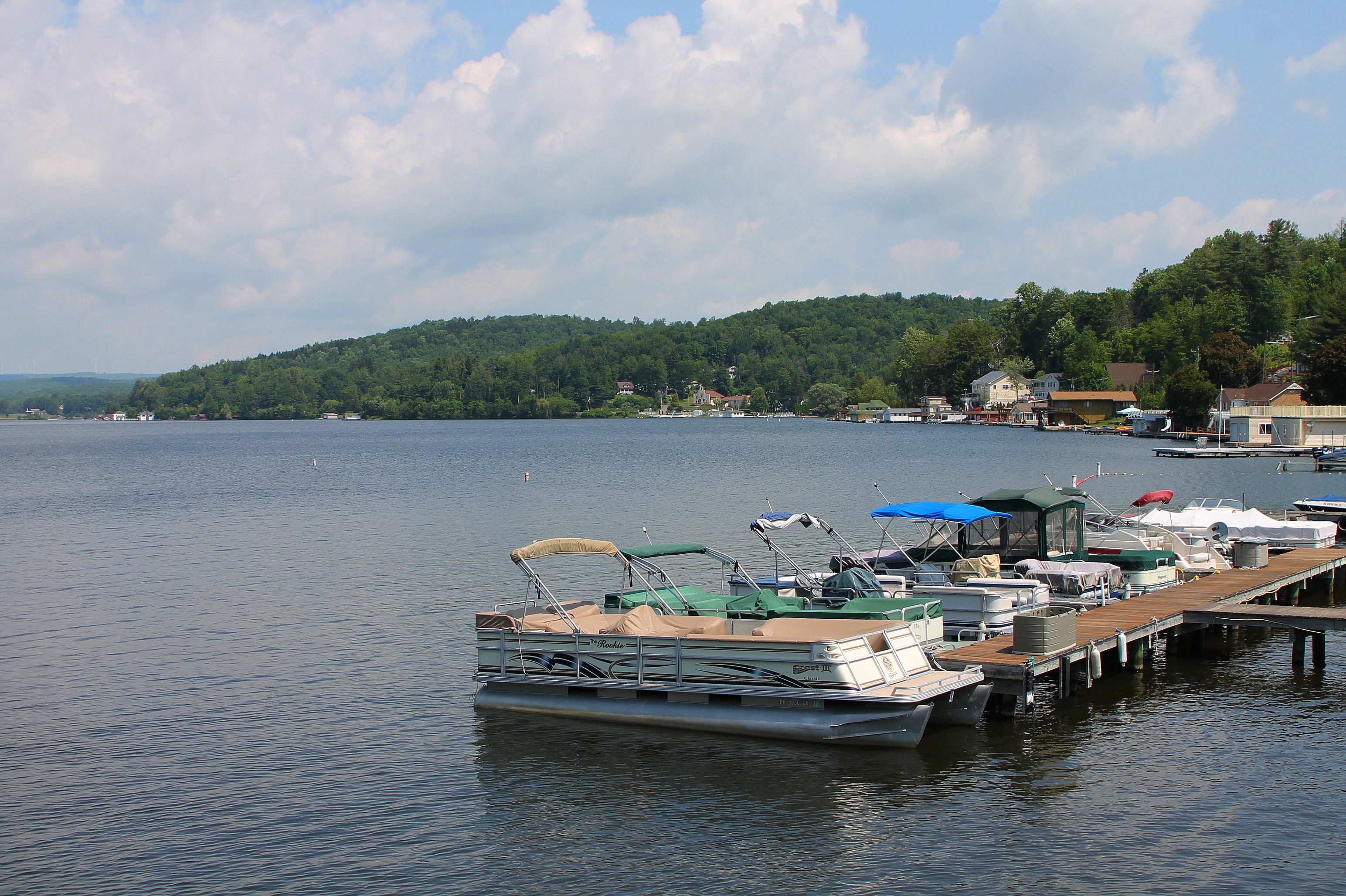 Boats on the southern end of Harveys Lake